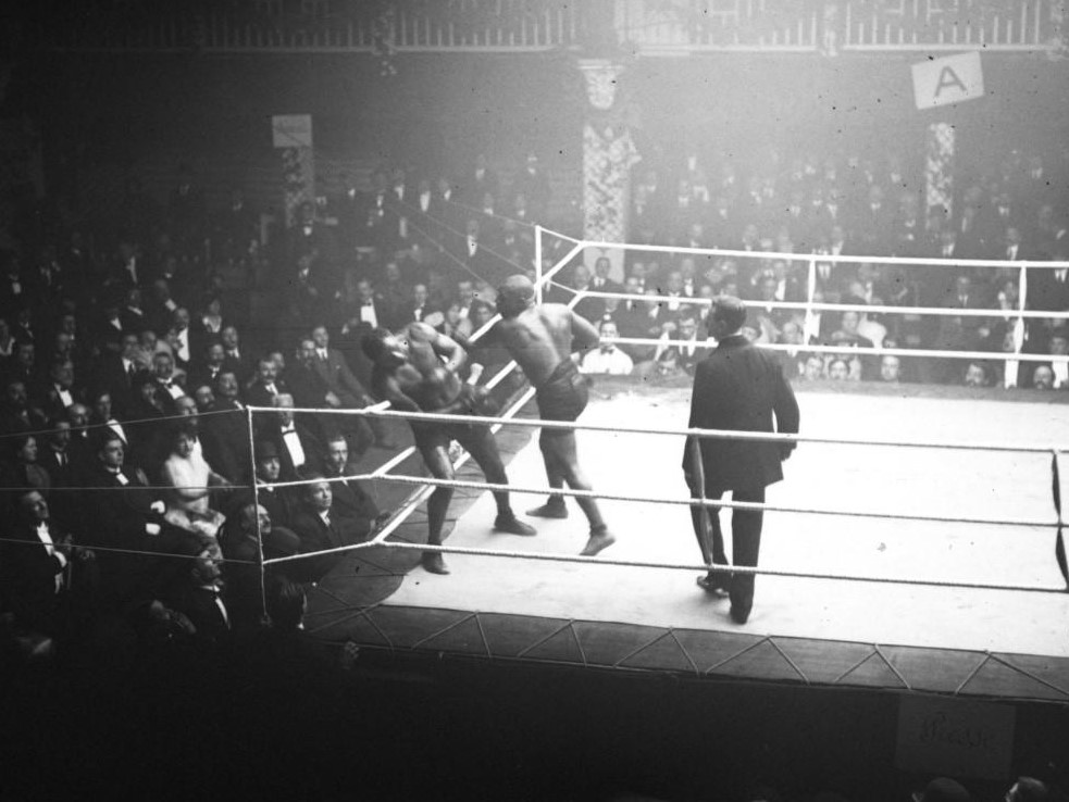 Langford vs. Jeannette [boxing match at Luna Park] : [press photograph]